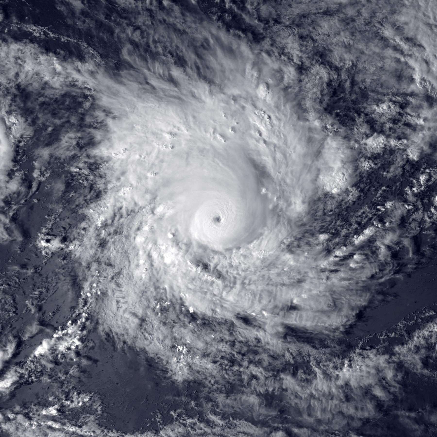 Severe Tropical Cyclone Ron at peak intensity northwest of Fiji on January 5, 1998